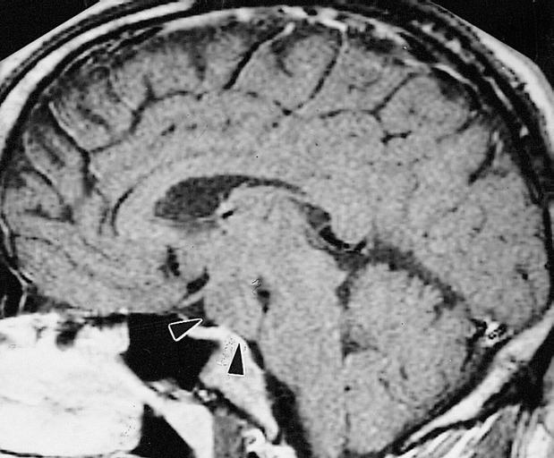 CNS: HYPOTHALAMIC HAMARTOMA This large hypothalamic hamartoma (arrows) is attached to the floor of the third ventricle.